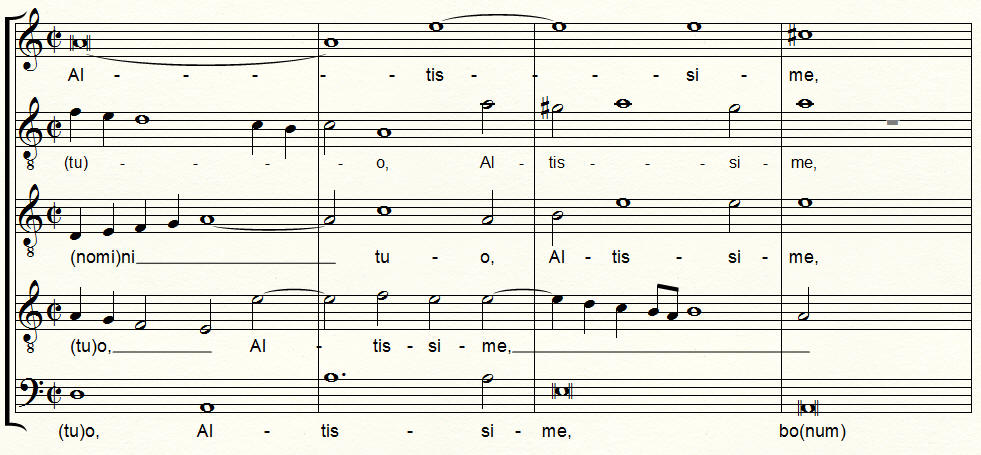 word-painting by Palestrina (fragment of offertory)